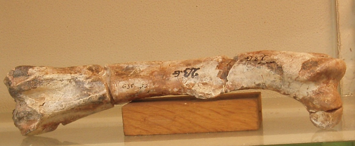 Femur of Elrhazosaurus (formerly Valdosaurus) nigeriensis